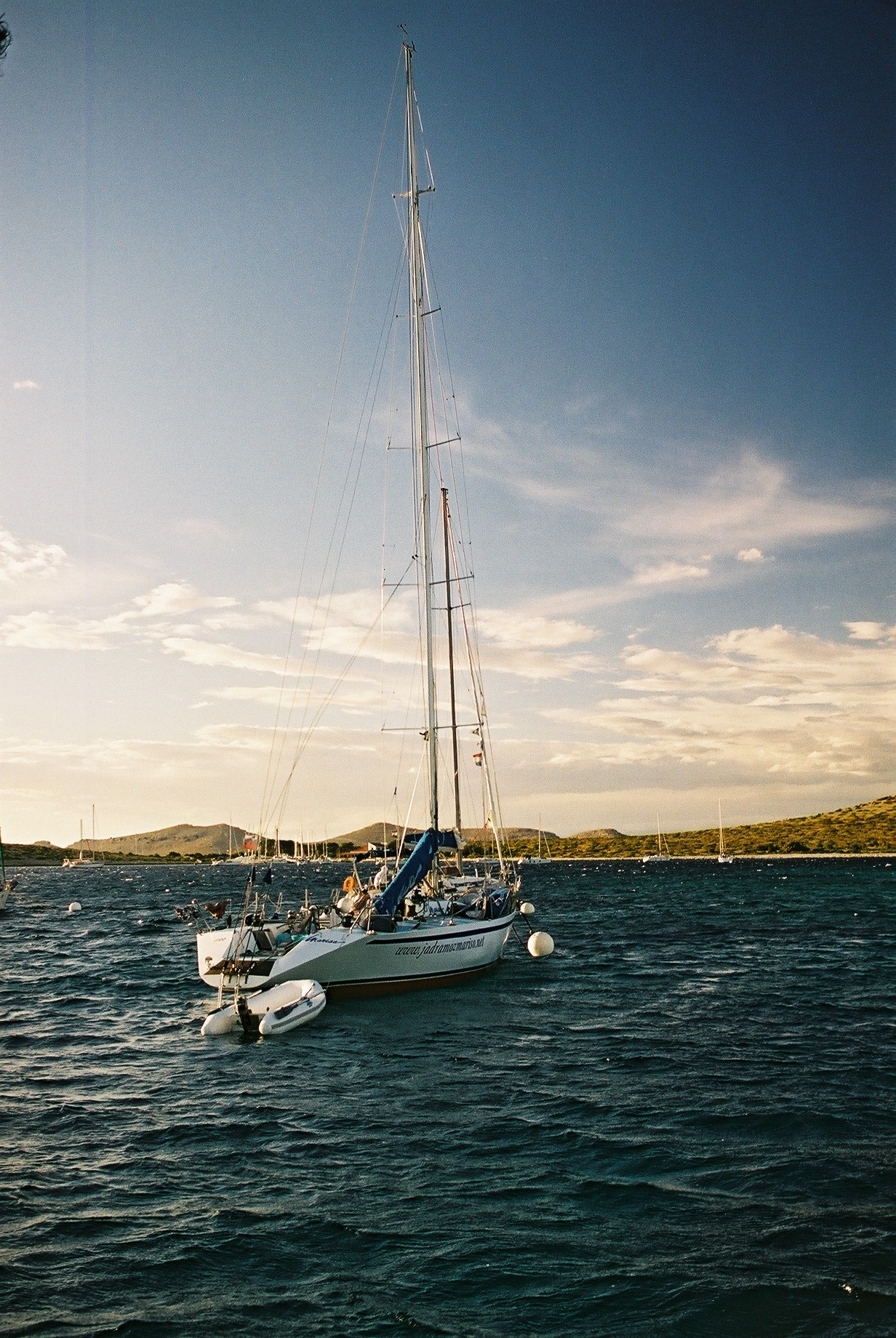 An offshore racing sailboat. It has no superstructures and an extraordinary long mast for a boat of this size.